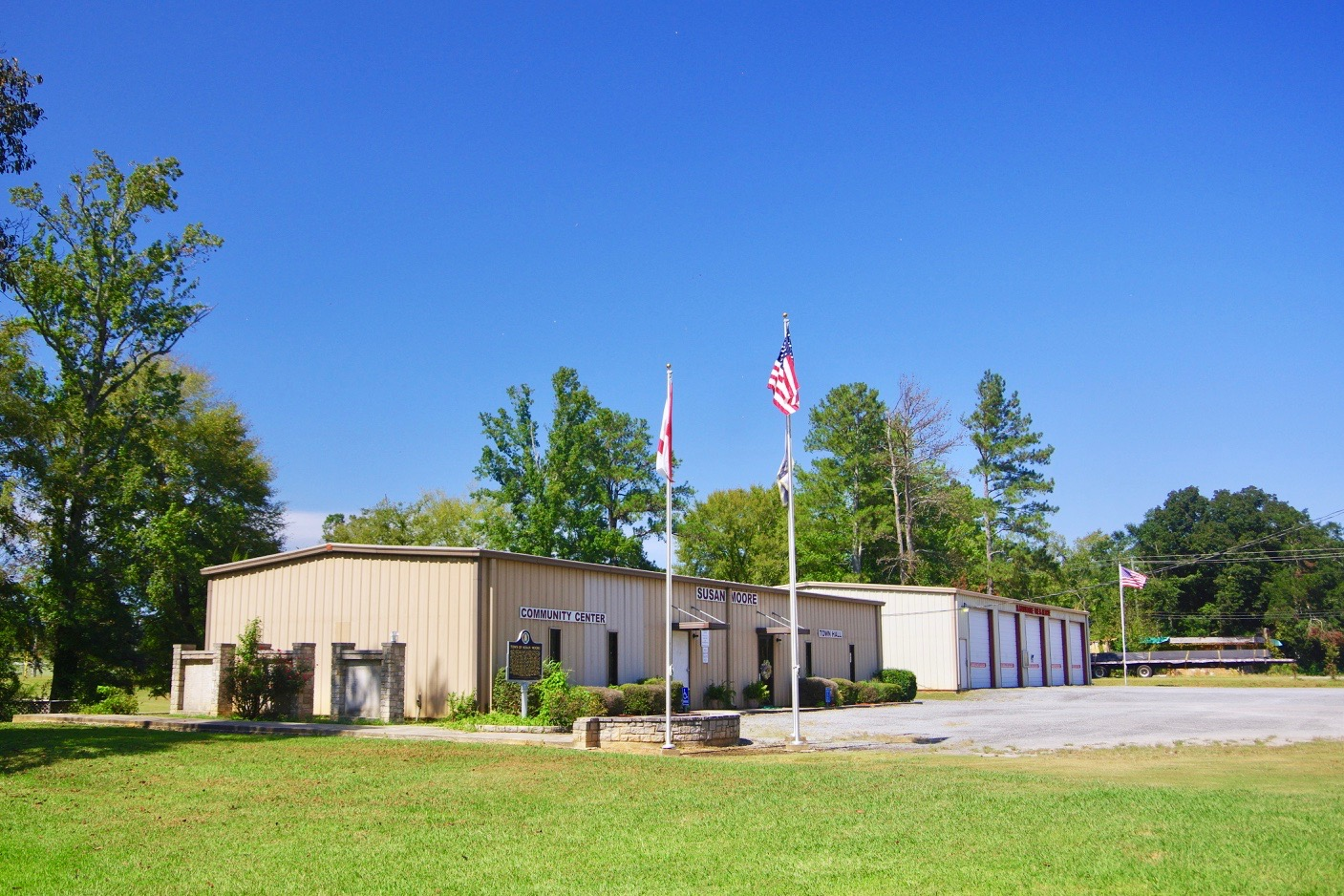 Town Hall and community center in Susan Moore, Alabama, United States.